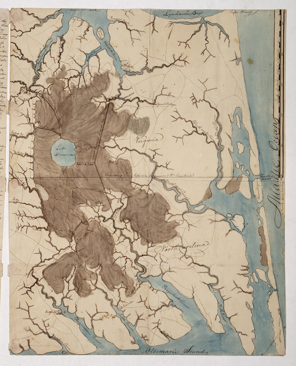 [Sketch map of the Great Dismal Swamp]Single sheet. Col. ms. Scale: 1:200 000 (bar). Cartographic Note: Scale in miles. Additional Places: Virginia, North Carolina. Contents Note: Shows the Great Dismal Swamp Canal, linking Chesapeake Bay in the north with Albemarle Sound in the south. The sketch is accompanied by a page of text, 'Questions and answers on the Swamp. Answers to Col. Hamilton's questions respecting the Great Dismal Swamp', concerning its length and breadth, the growth of timber, extent of cultivation, canal cutting, seasonal factors and whether any animals are peculiar to the Swamp. Gren78/1 [Sketch map of the Great Dismal Swamp]